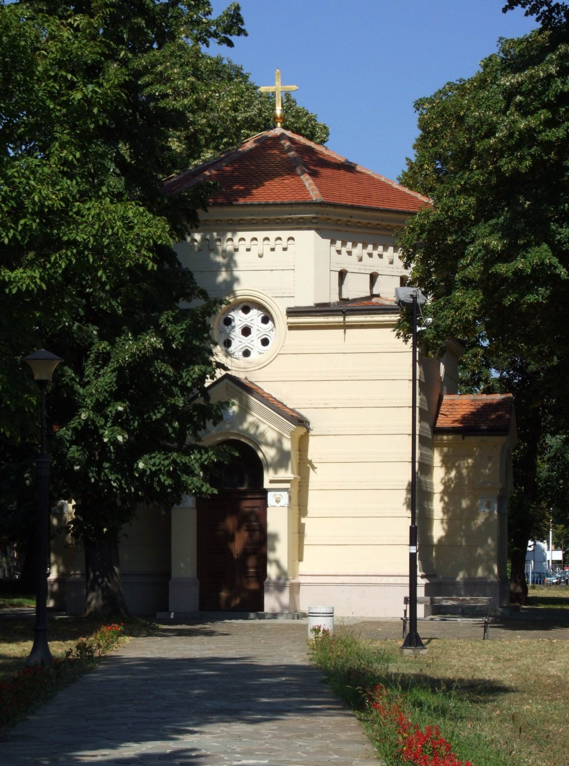 Skull Tower in Niš, Serbia